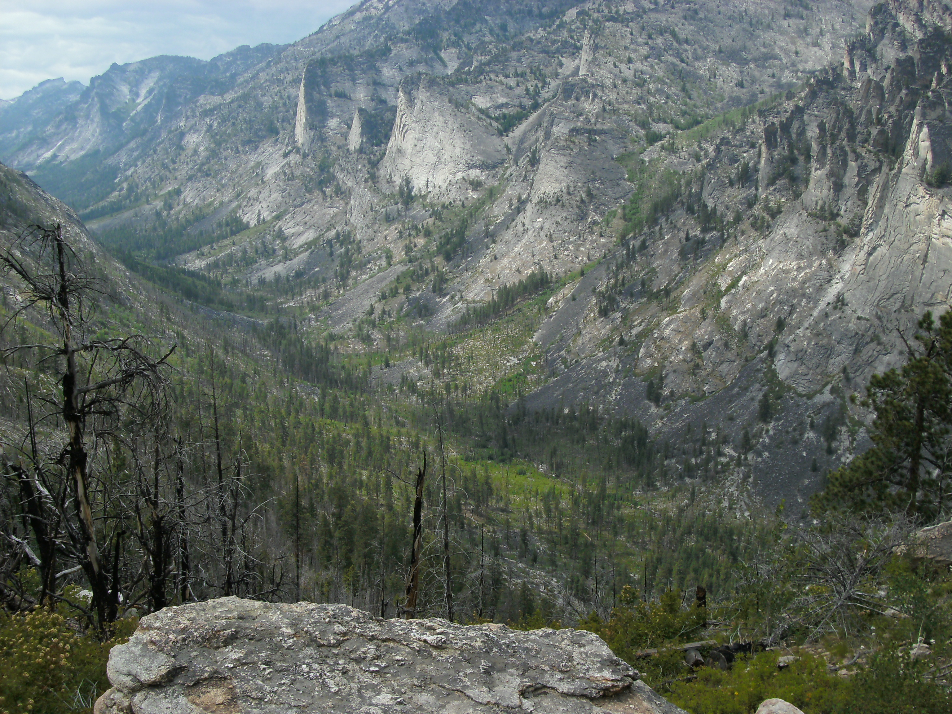 View of Blodgett Canyon from overlook trail. Taken Summer 2010 by John David Stutts.